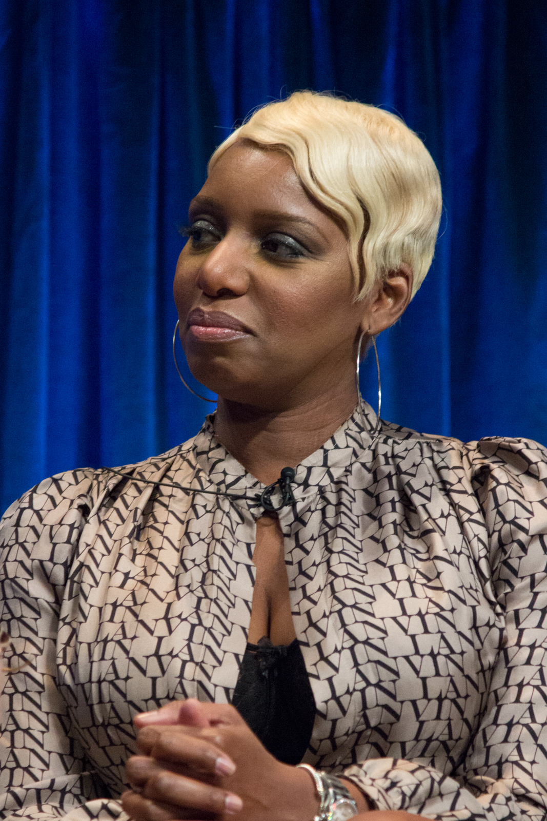 NeNe Leakes at the PaleyFest 2013 panel on the TV show "The New Normal"